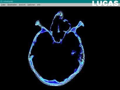 Segmentation on the LUCAS workstation